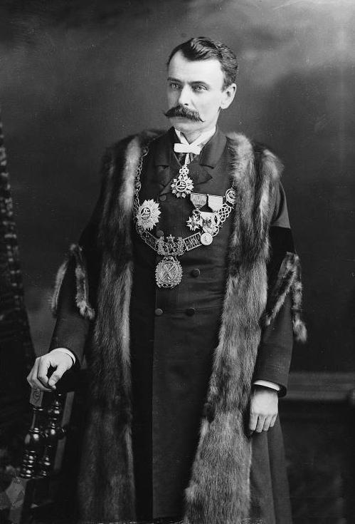 Photograph: Mayor Honoré Beaugrand, Montreal, QC, 1887, by Wm. Notman & Son. Silver salts on glass, Gelatin dry plate process, 17 x 12 cm